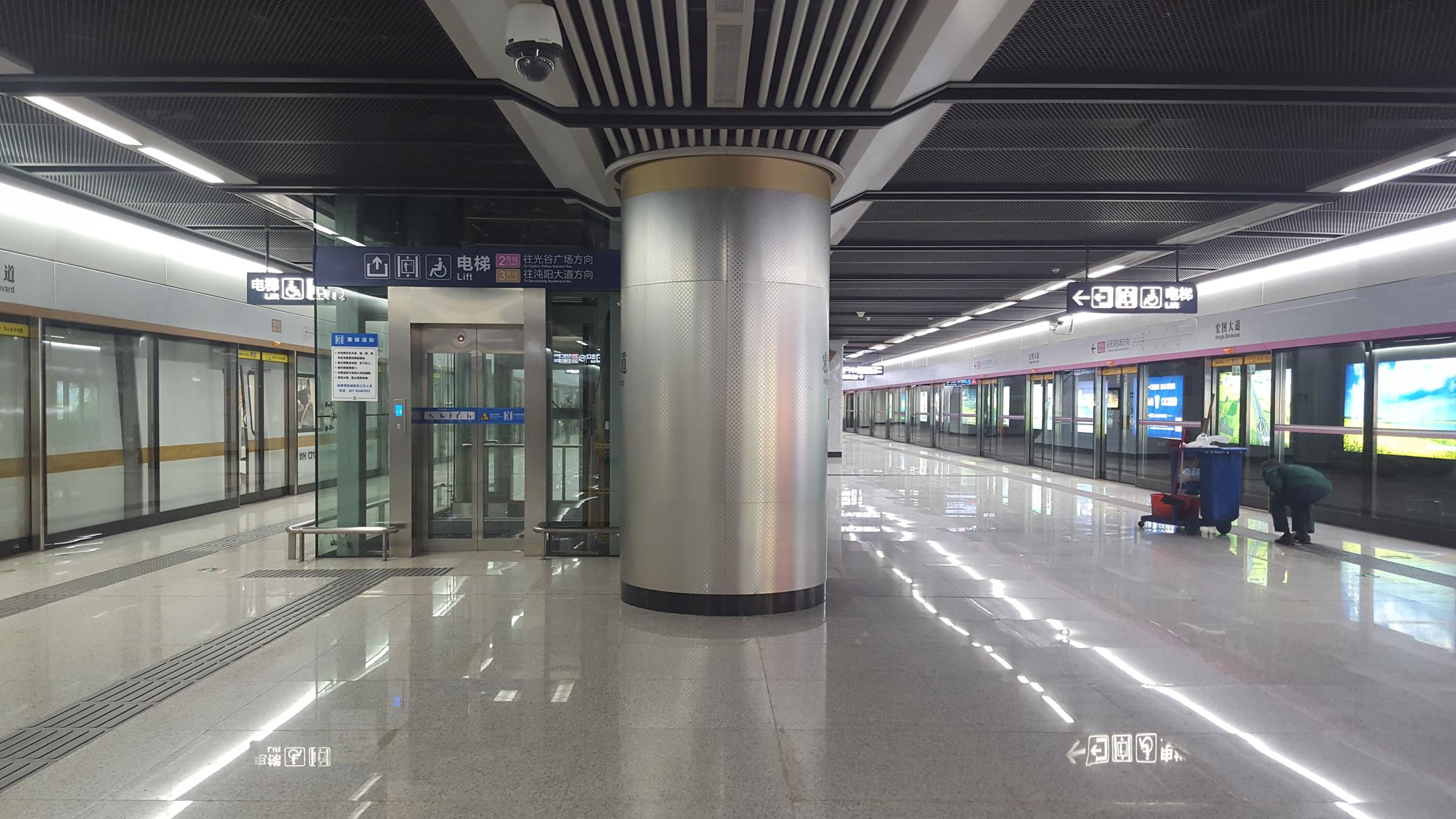 Platform of Hongtu Boulevard Station, Wuhan Metro